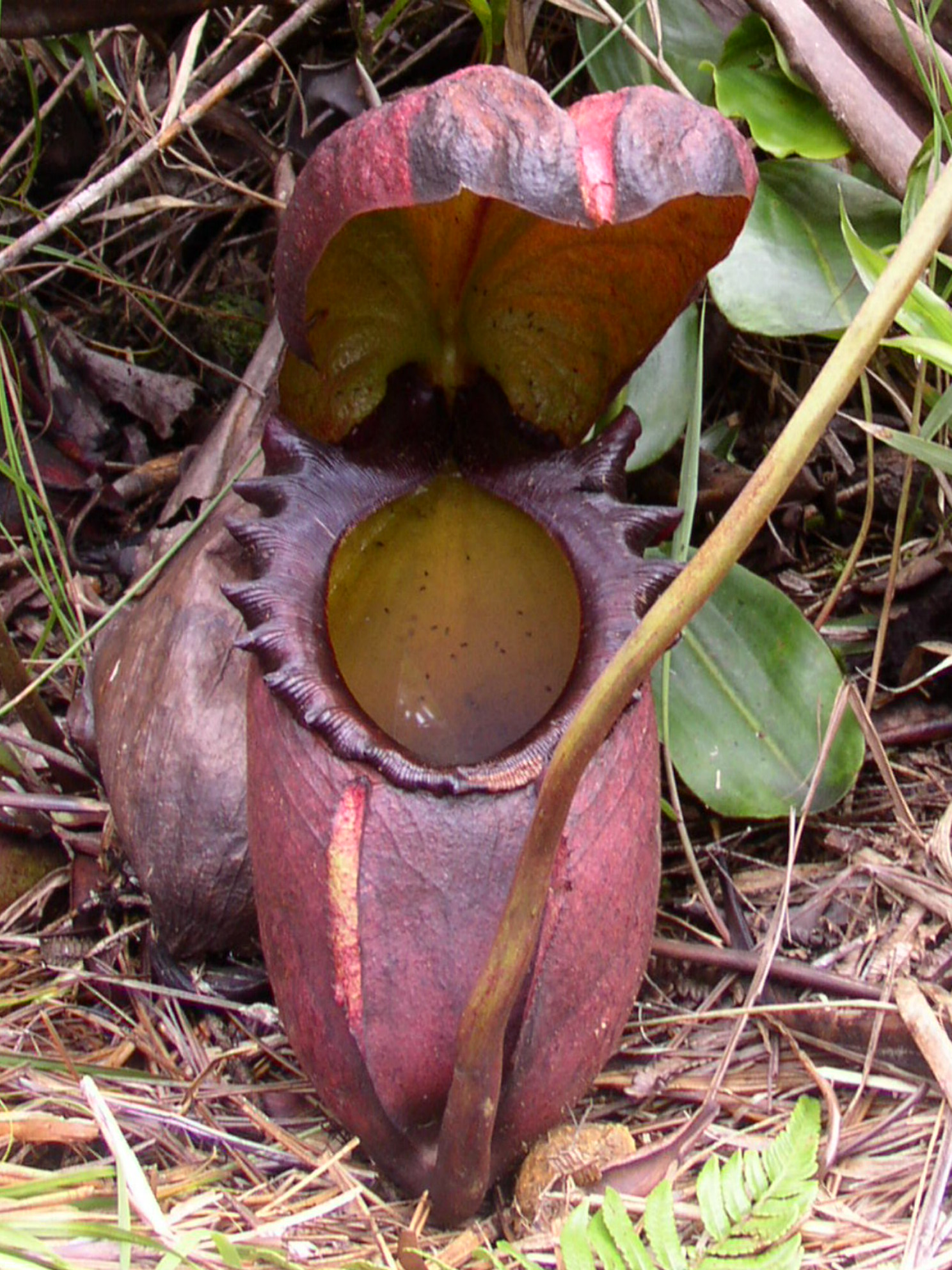 Large terrestrial pitcher of Nepenthes rajah.